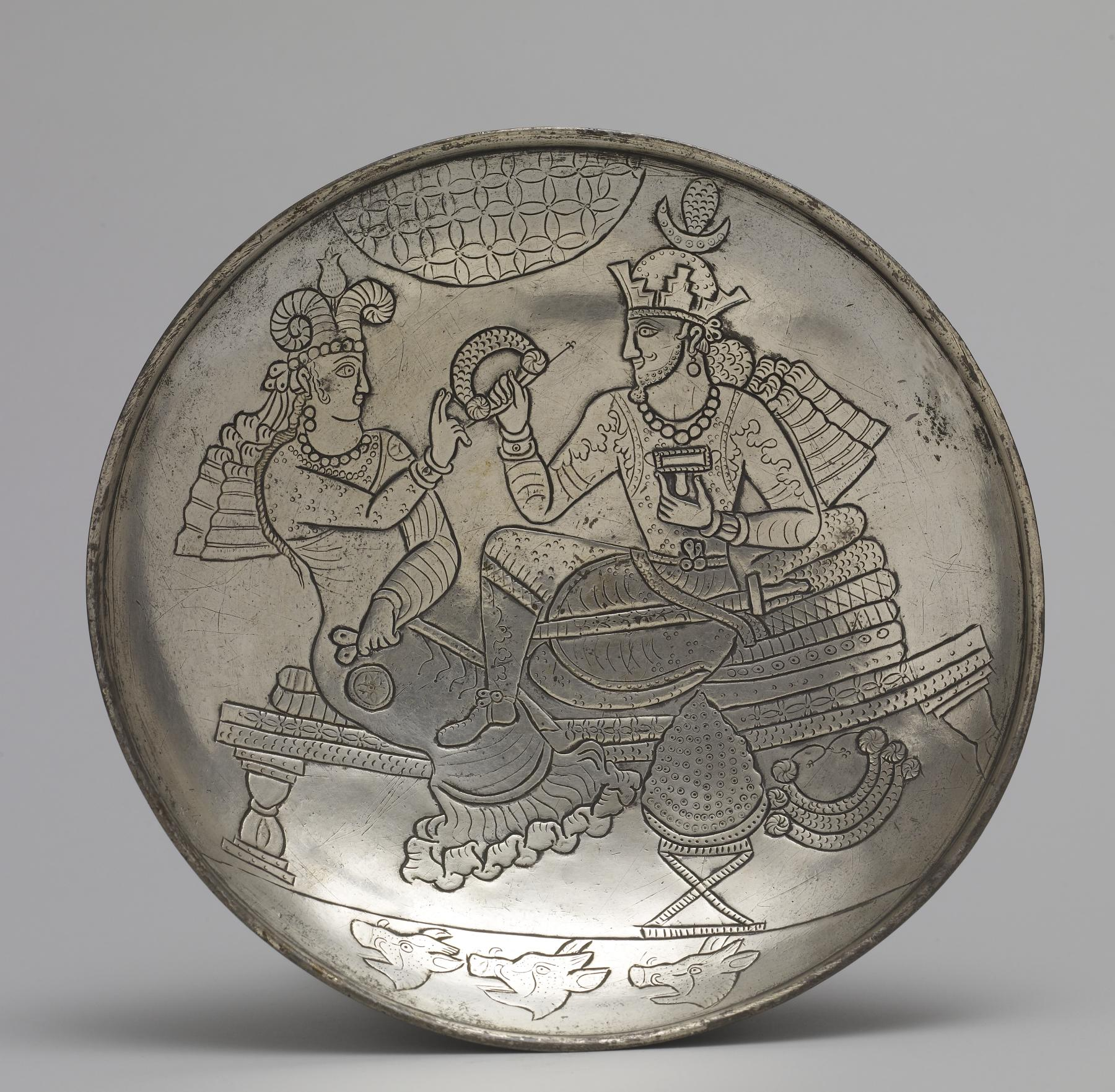 This plate depicts a king and queen seated on throne, possibly at a wedding.